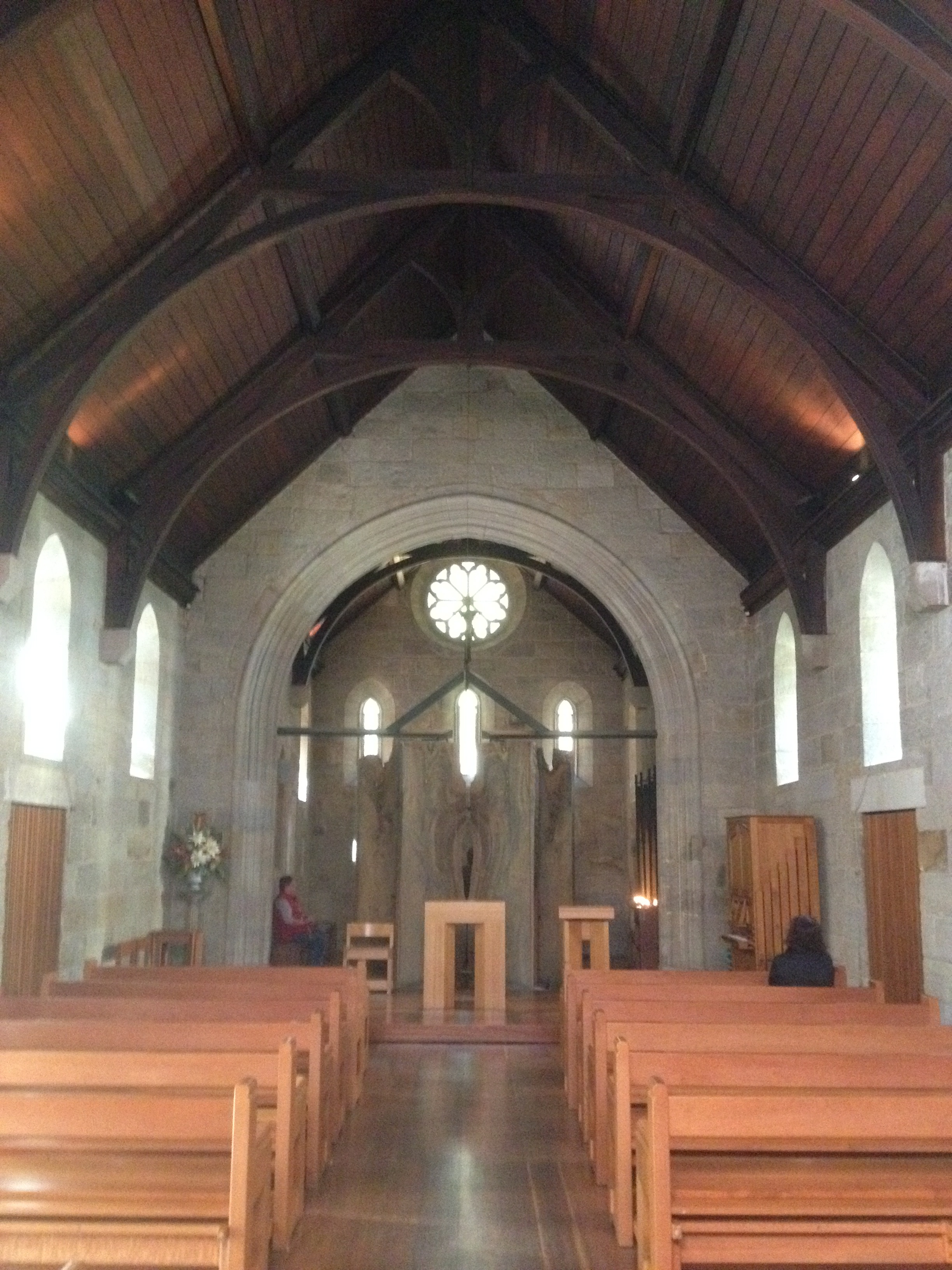 Interior of St Stephen’s Chapel located next to Saint Stephen's Cathedral, Brisbane